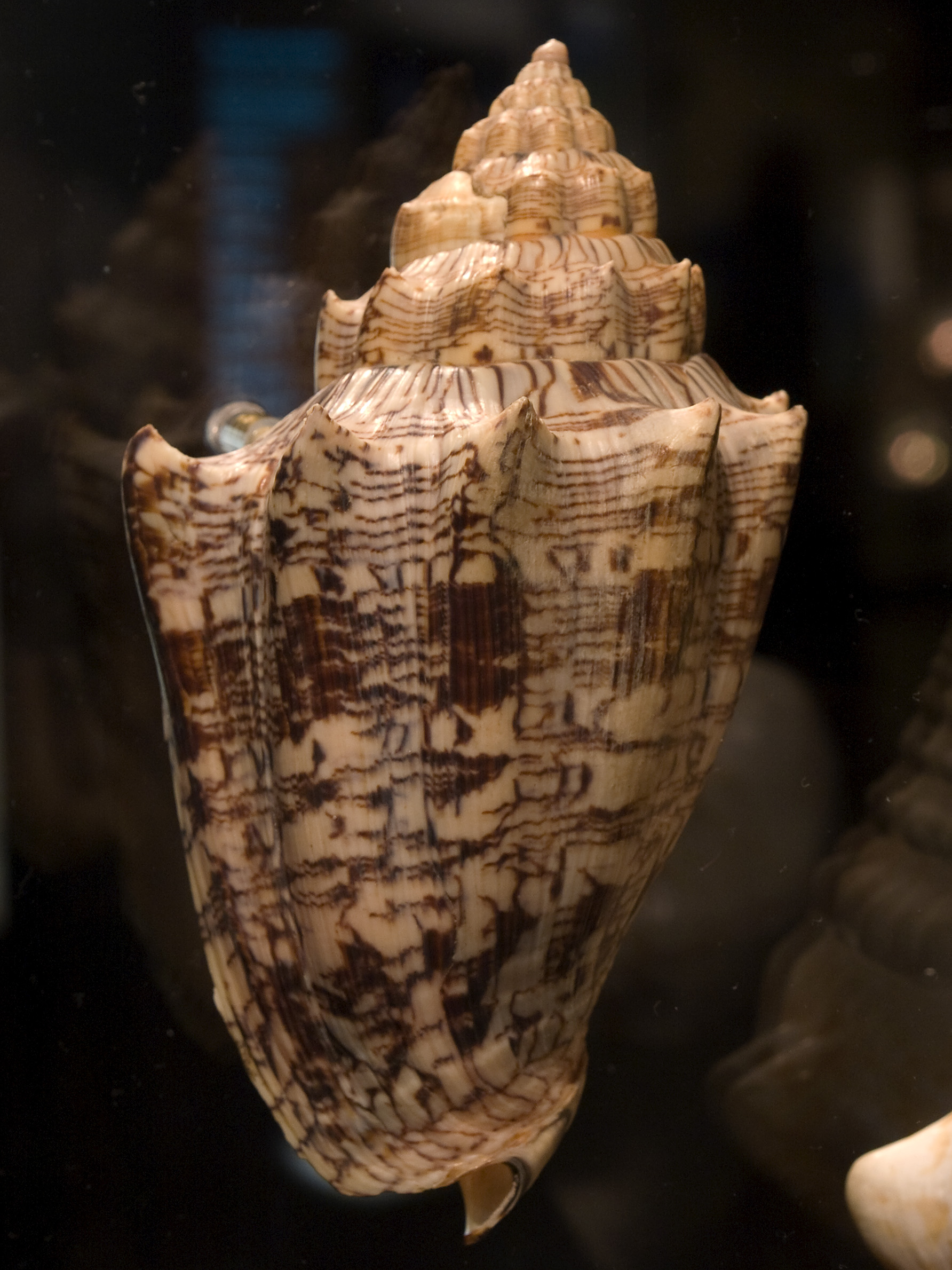 Voluta ebraea (Hebrew Volute) Brazil HMNS 9091 Wikipedia Loves Art at the Houston Museum of Natural Science This photo of item # 9091 at the Houston Museum of Natural Science was contributed under the team name "Assignment_Houston_One" as part of the Wikipedia Loves Art project in February 2009. Houston Museum of Natural Science The original photograph on Flickr was taken by skarsol—please add a comment to the original Flickr page whenever a use has been made on Wikipedia or another project. Project galleries on Flickr: this institution, this team